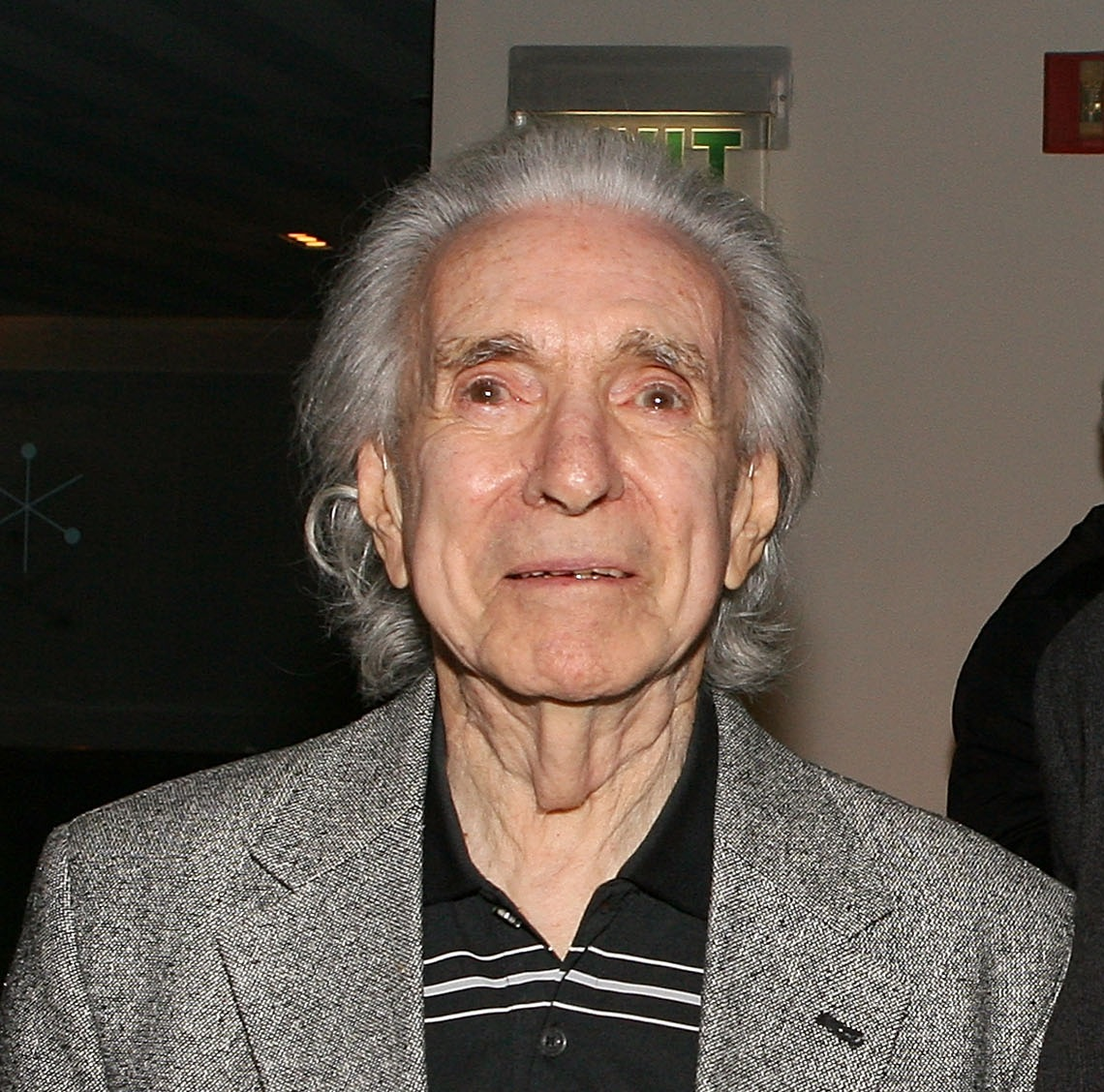 BEVERLY HILLS, CA - MARCH 09: Director Arthur Hiller attends The Canadian Film Centre cocktail reception celebrating the Telefilm Canada Features Comedy Lab held at Avalon Hotel on March 9, 2011 in Beverly Hills, California.